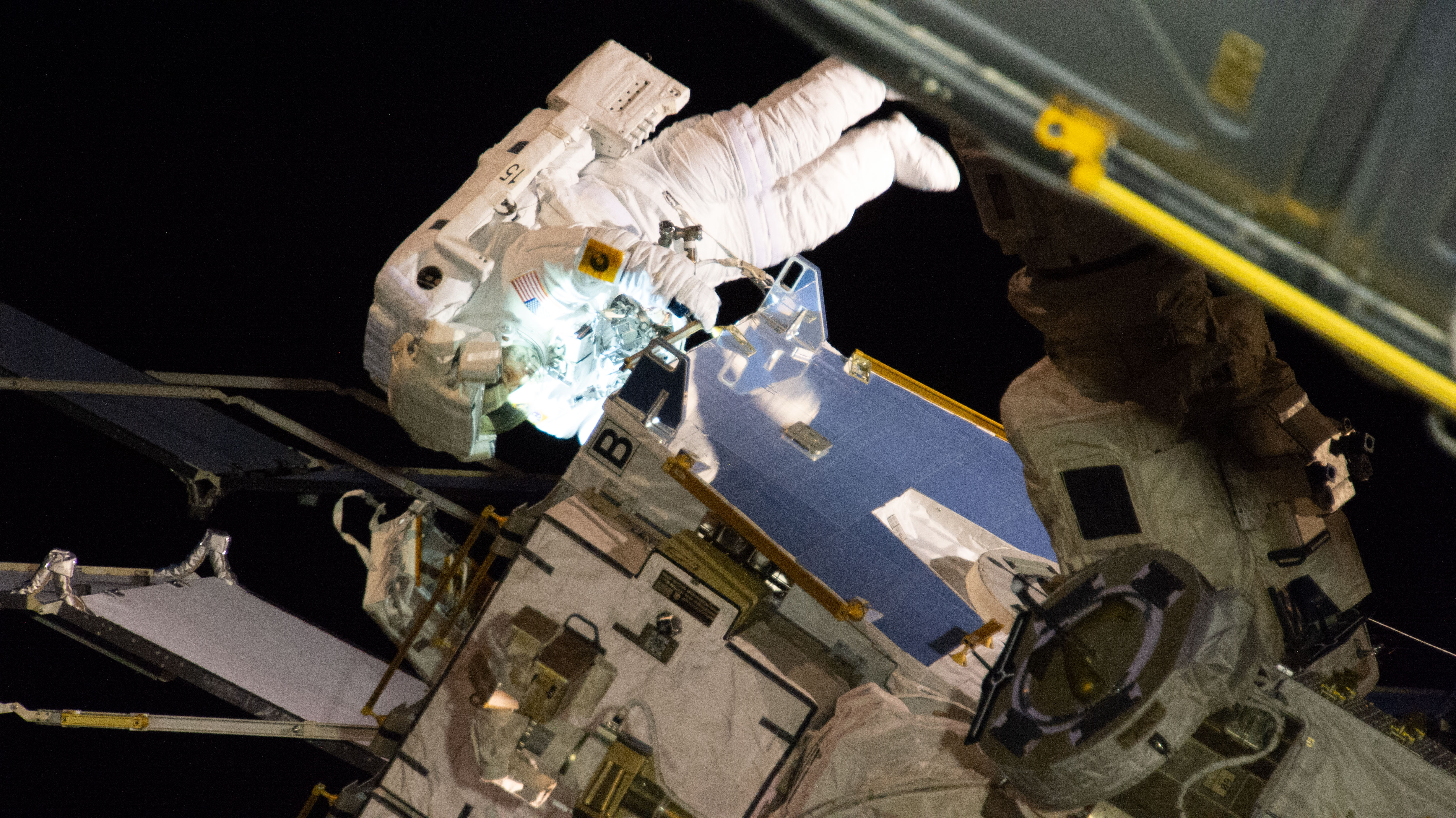 NASA astronaut Christina Koch participates in her first spacewalk to upgrade the International Space Station's power storage capacity. She and fellow spacewalker Nick Hague (out of frame) of NASA worked outside in the vacuum of space for six hours and 45 minutes to continue swapping batteries and install adapter plates on the station's Port-4 truss structure.